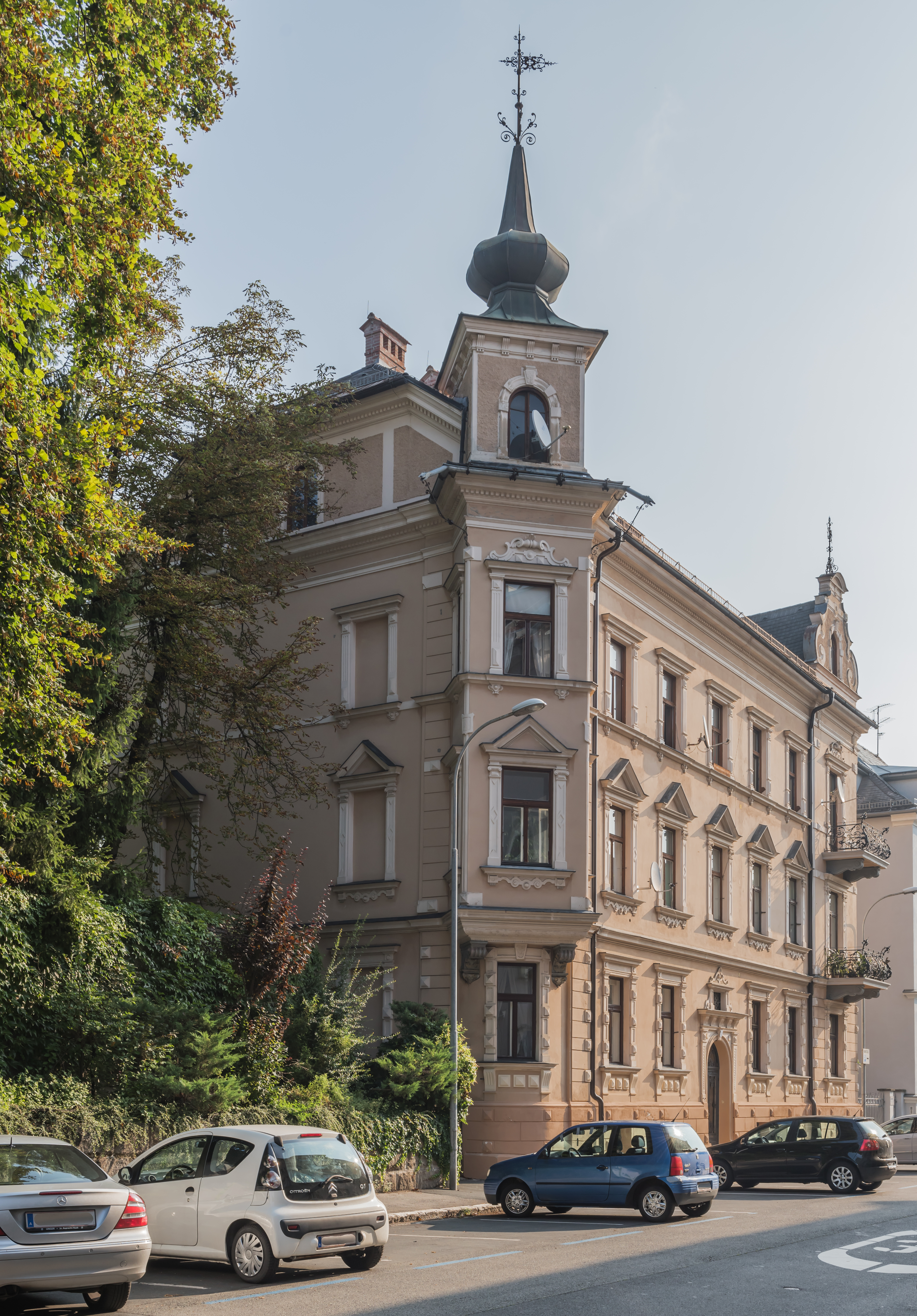 Late historicist building (architect Georg Horčička, 1898) on Sariastrasse #3, 6th district “Völkermarkter Vorstadt”, statutary city Klagenfurt on the Lake Woerth, Carinthia, Austria, EU